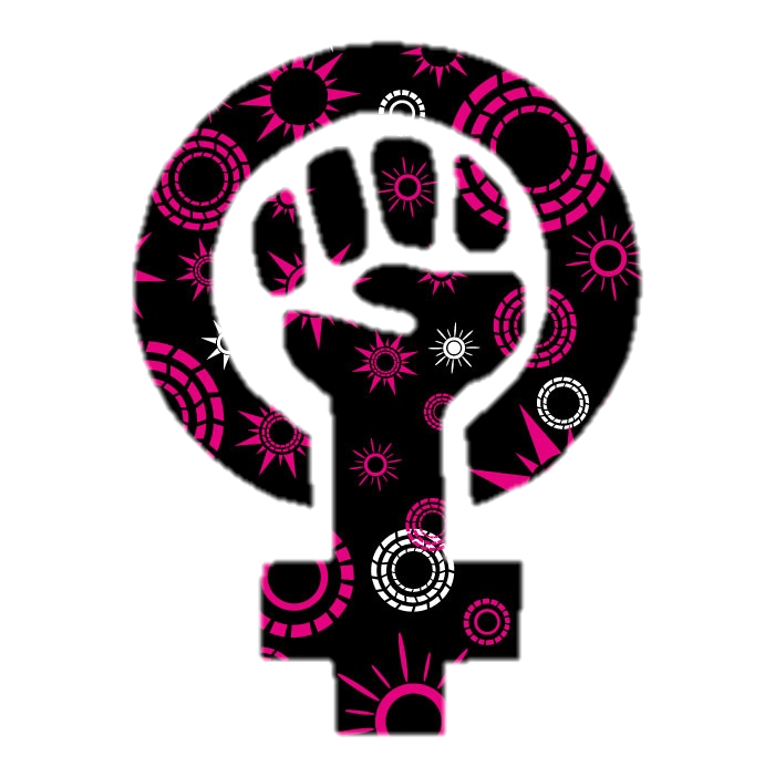 venus symbol, pink and black pattern, white background